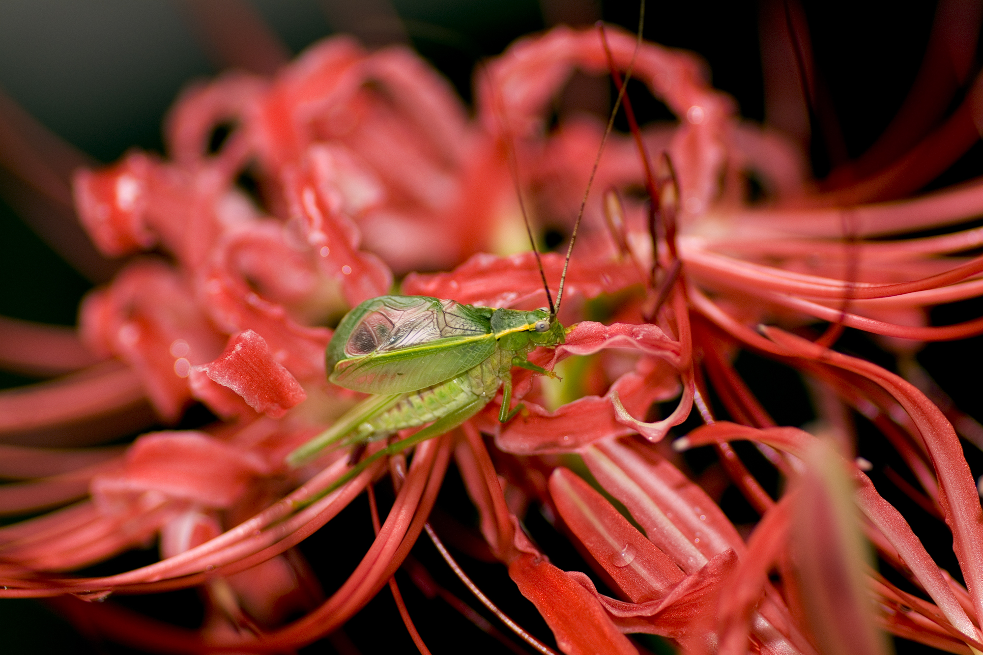 Calyptotrypus hibinonis on lycoris radiata